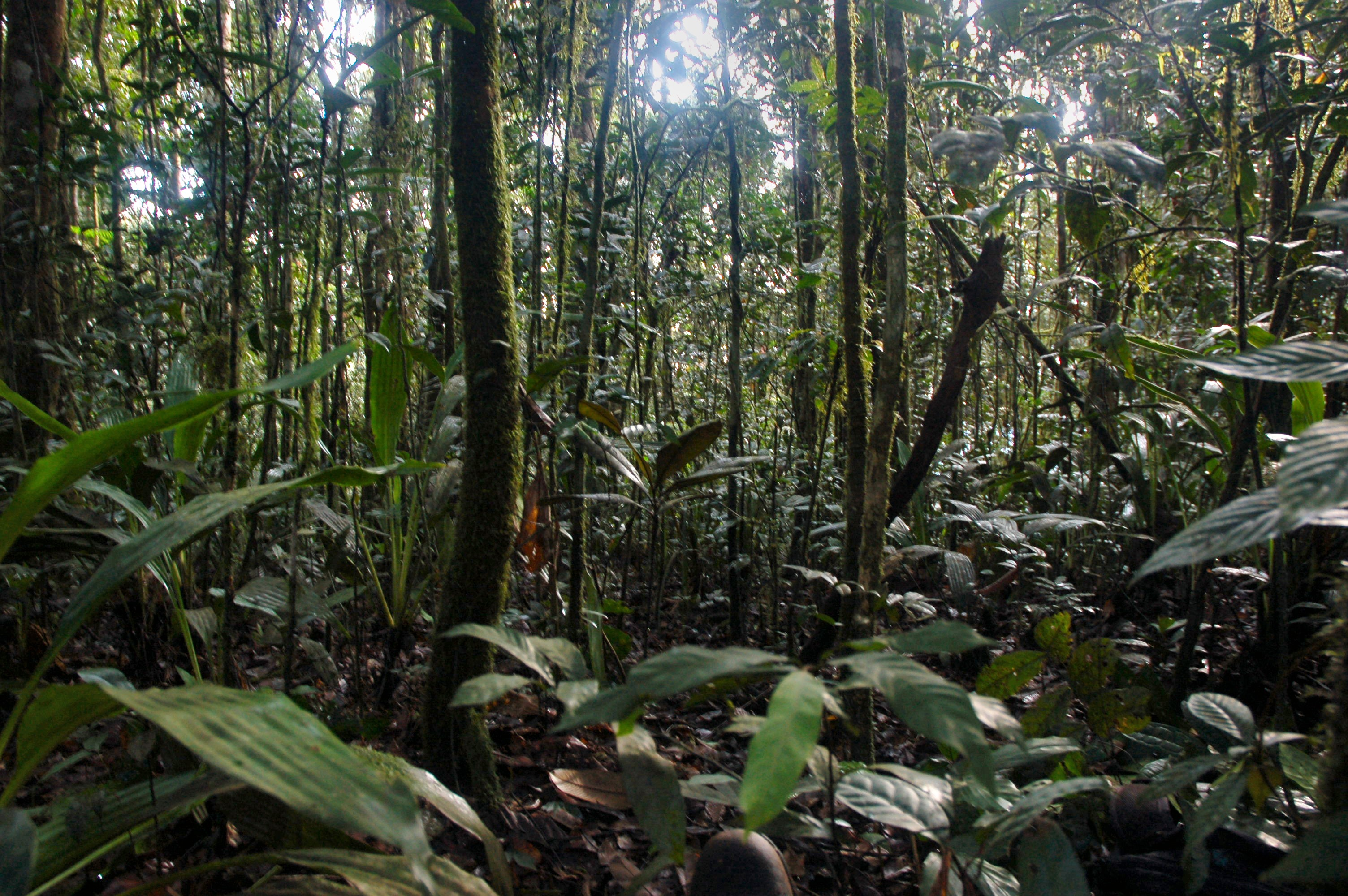 Mt Mimongo, forest on the summit (1020m), Gabon